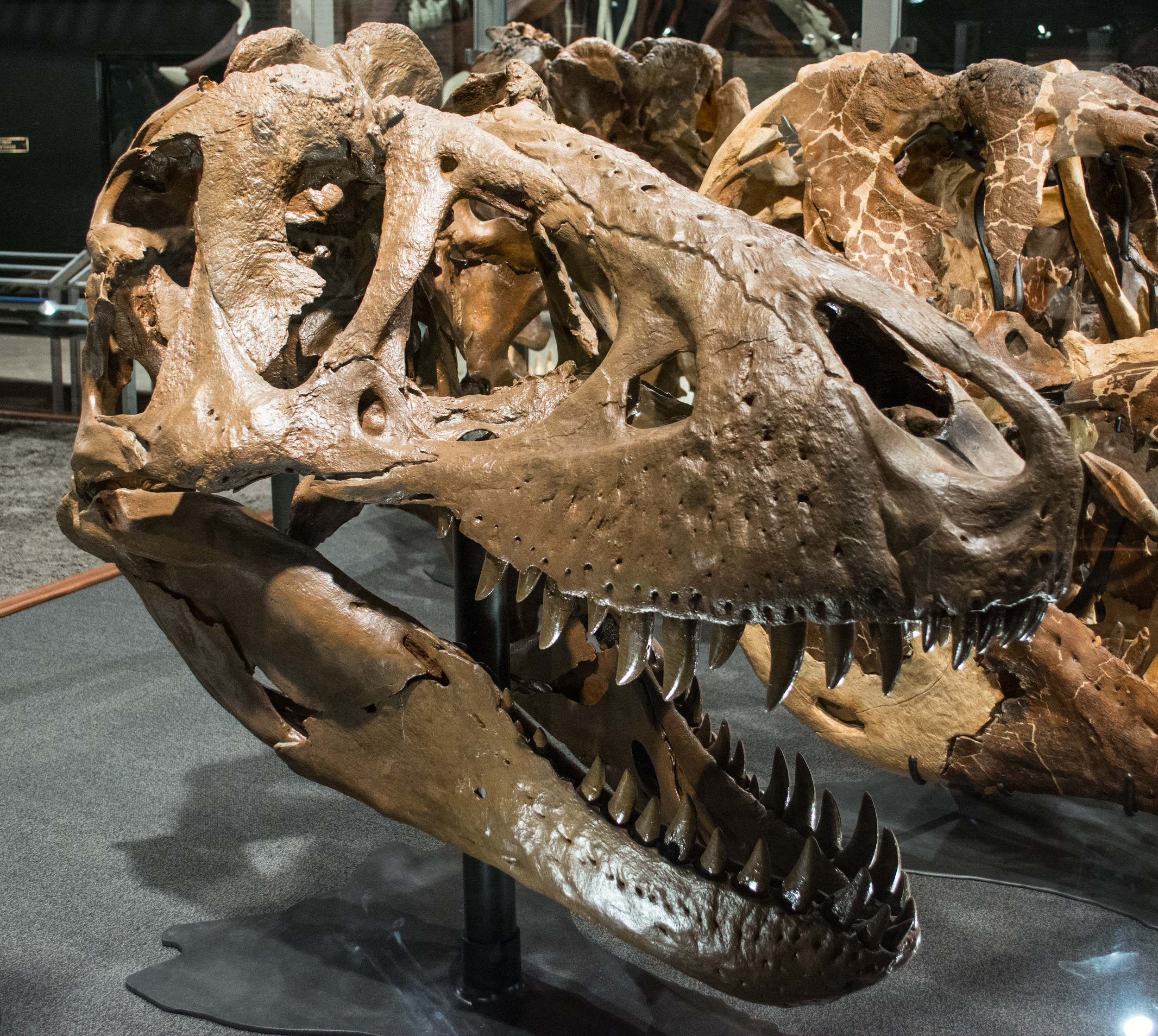 A young adult Tyrannosaurus rex skull on display in the ontogeny exhibit at the Museum of the Rockies in Bozeman, Montana. This fossil was found in 2000 in the Charles M. Russell National Wildlife Refuge in Garfield County, Montana. Nicknamed "B-Rex" for its discoverer, paleontological preparer Bob Harmon, this fossil is famous for containing partially-fossilized soft tissue in its femur -- allowing scientists to study, for the first time ever, the actual DNA structure of dinosaurs. In 2016, paleontologists announced that they had found medullary bone -- which means the B-Rex was a female, and egg-producing. Ontogeny means "the study of a species as it changes during its growth and life." Many animals not only grow larger, but change shape and add or lose features as they grow older. When it comes to fossils, it's easy to think that a juvenile is a different species. The study of ontogeny is also important because it helps us understand animals as they grow older, and what diseases, problems, or changes their bodies underwent at adults and in old age. Tyrannosaurs lived from 68 to 66 million years ago. T. rex was the last of the tyrannosaurids (bipedal predators with large skulls and miniscule forearms). On average, a T. rex was about 40 feet in length, 13 feet tall at the hips, and weighed 10.5 tons.